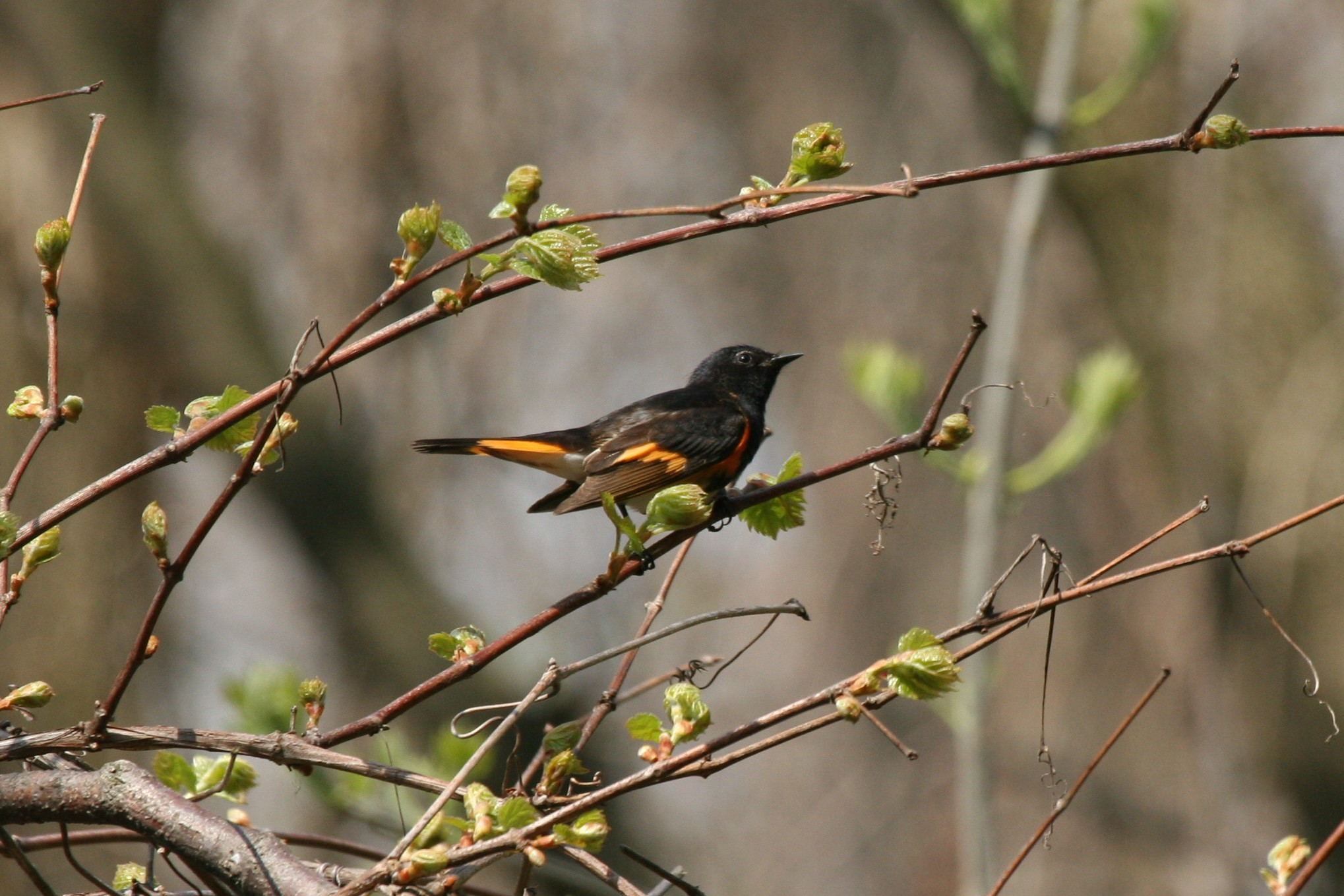 American Redstart (Setophaga ruticilla)